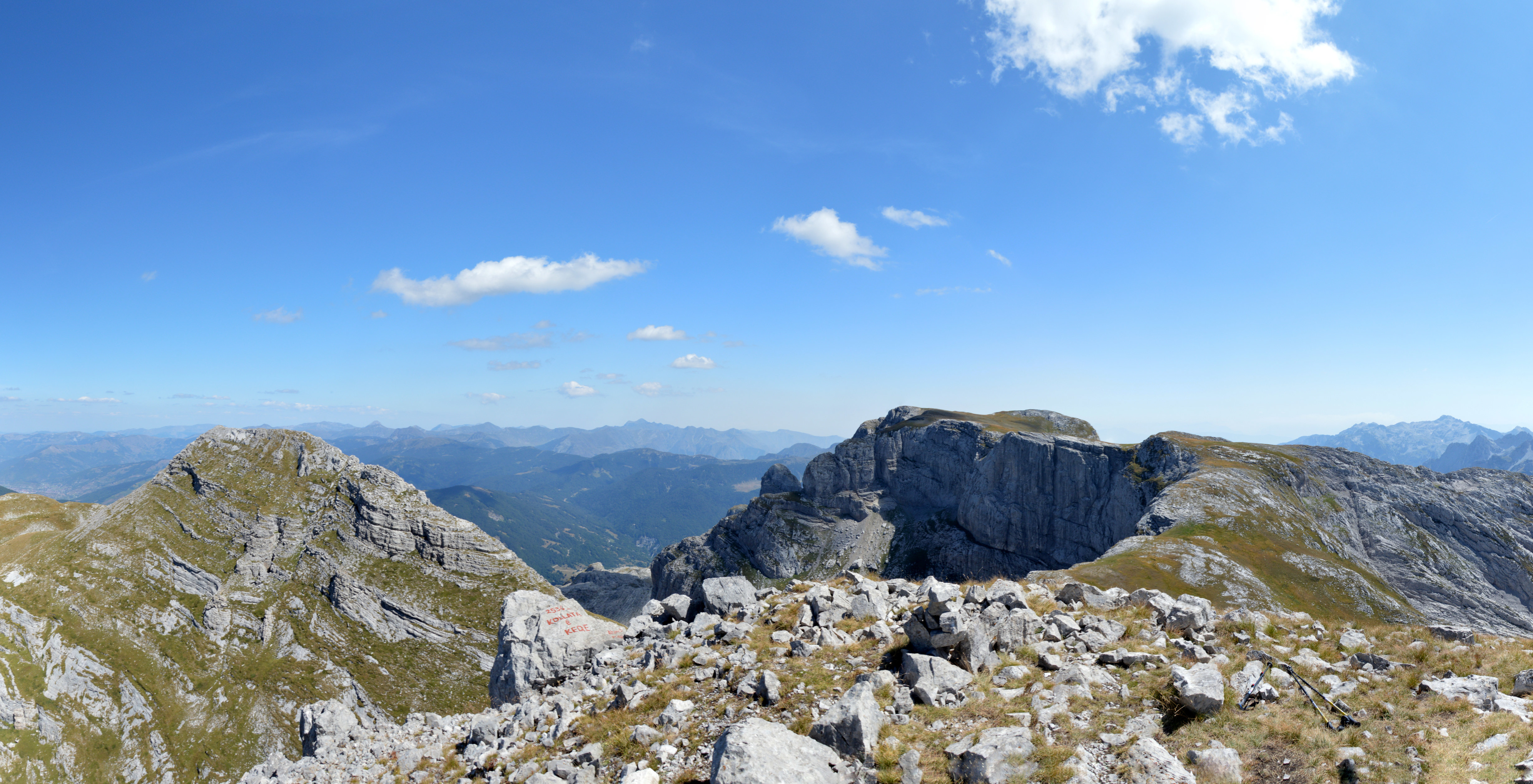 View from summit Zla Kolata - panorama 360 degree